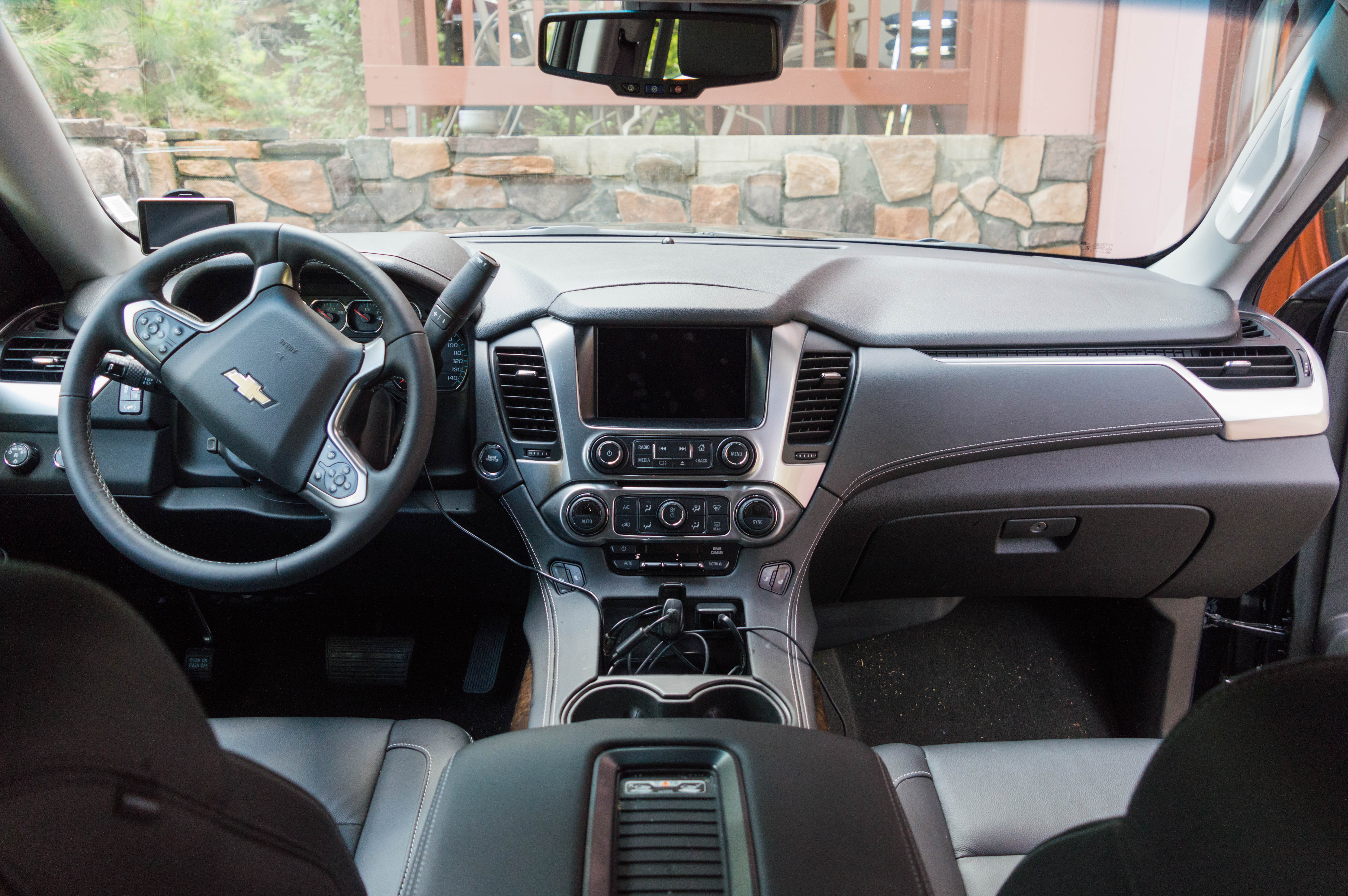 The interior of a May 2015 Chevrolet Suburban (GMTK2XX) in West Yosemite. The car is an Avis rental vehicle.